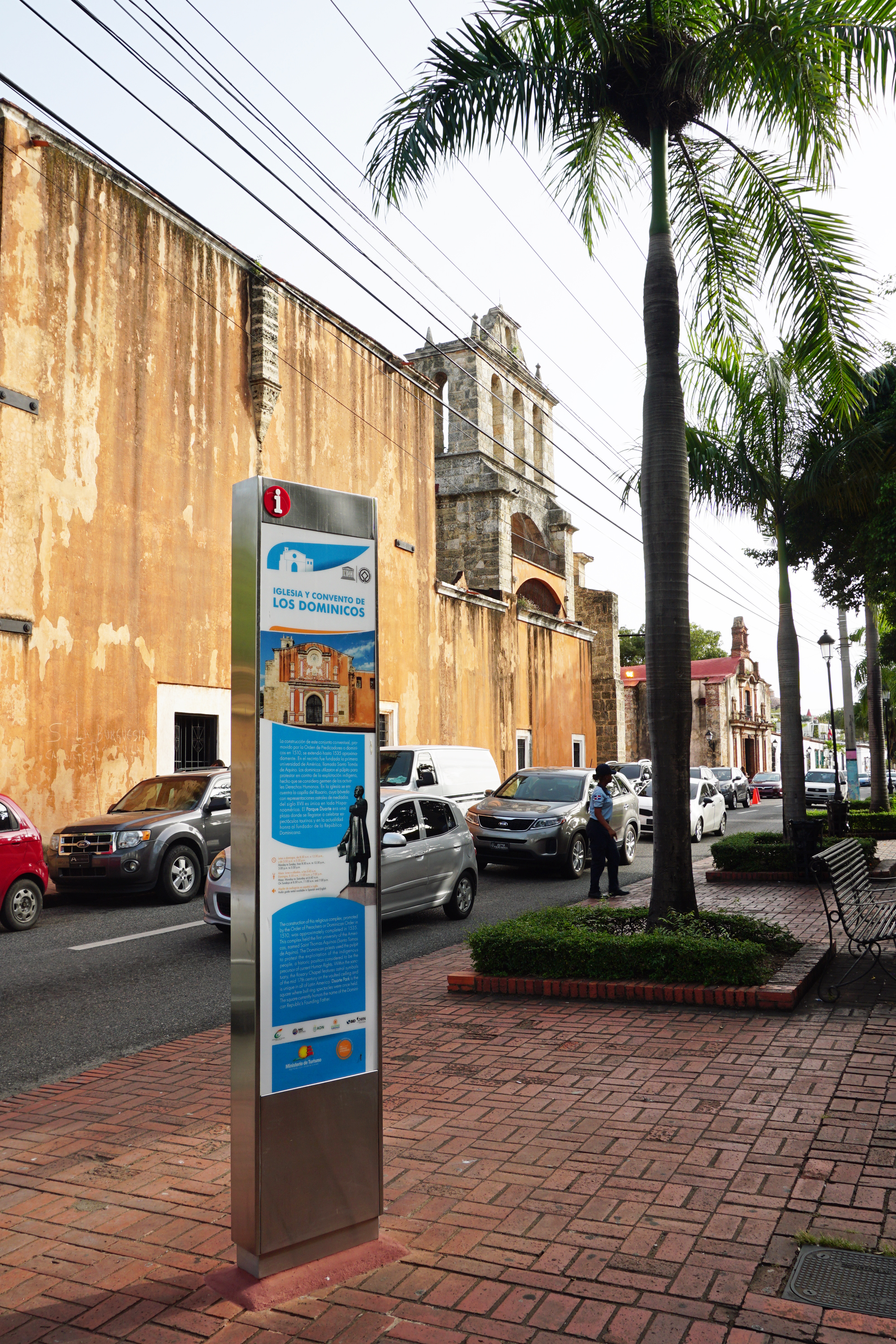 Tourist information totem for the Dominican Order Church and Convent, Ciudad Colonial, Santo Domingo, Dominican Republic.